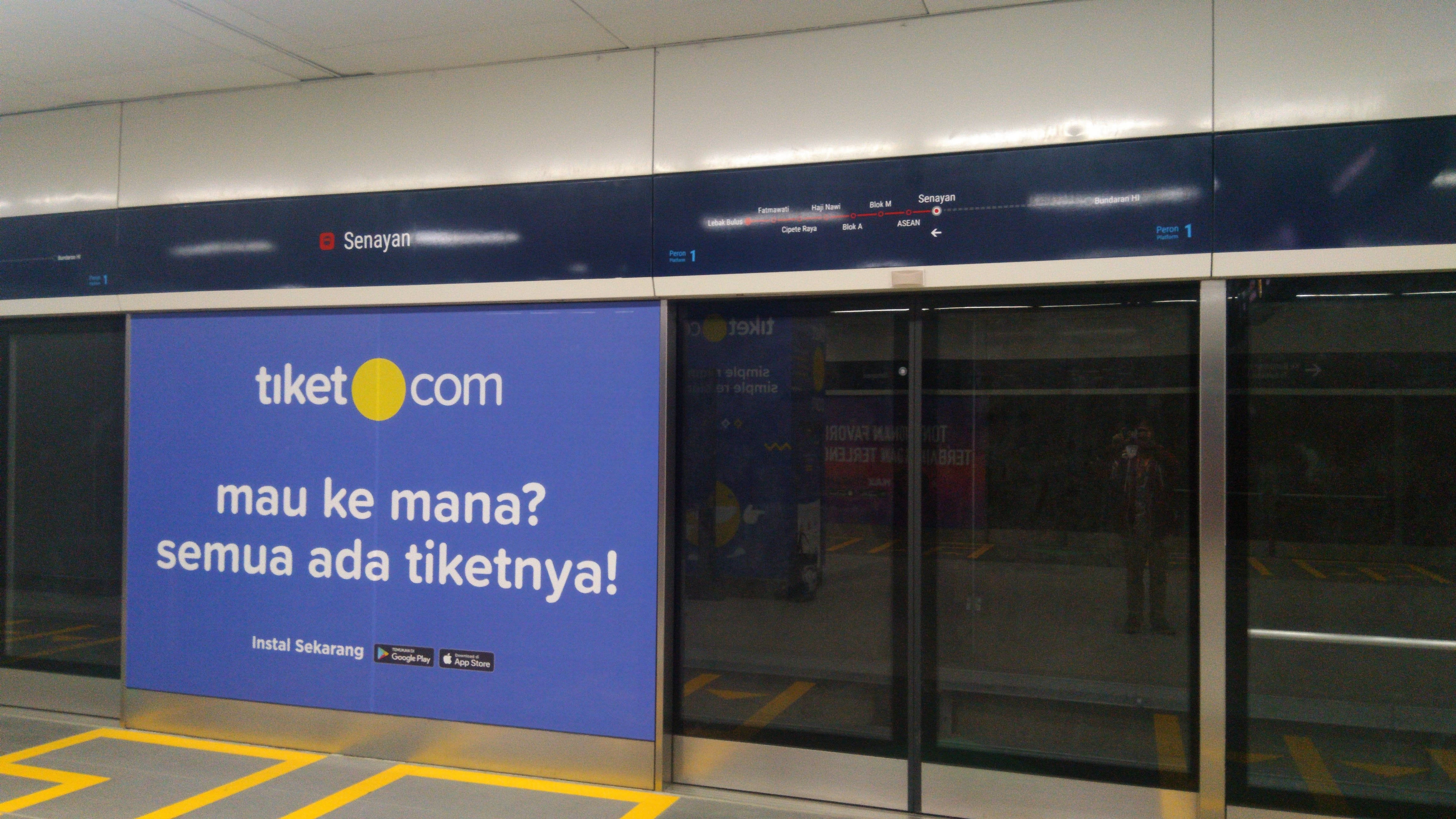 Platform screen door at Senayan MRT Station